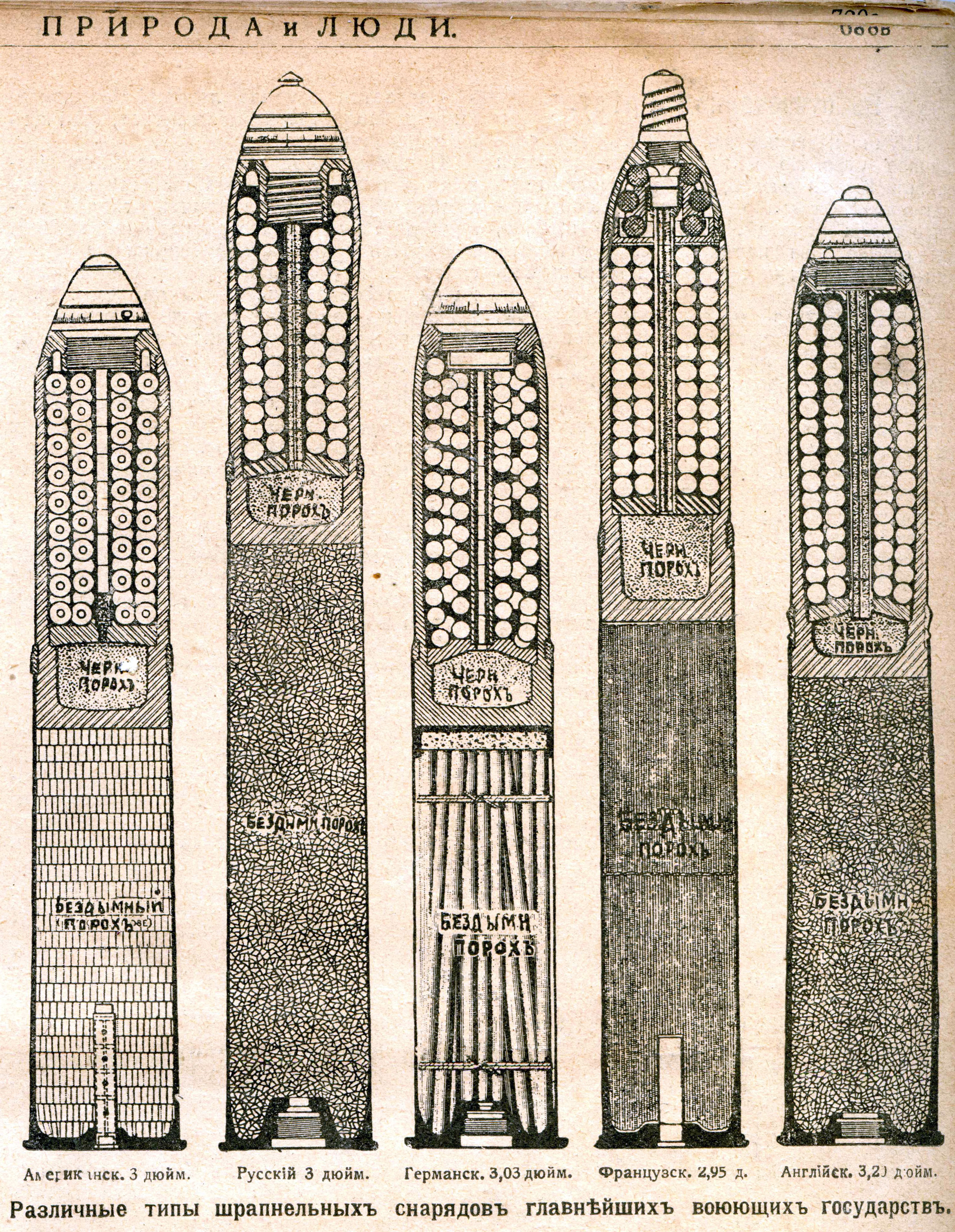 From Nature and people Russian illustrated science, arts and literature magazine, 1915